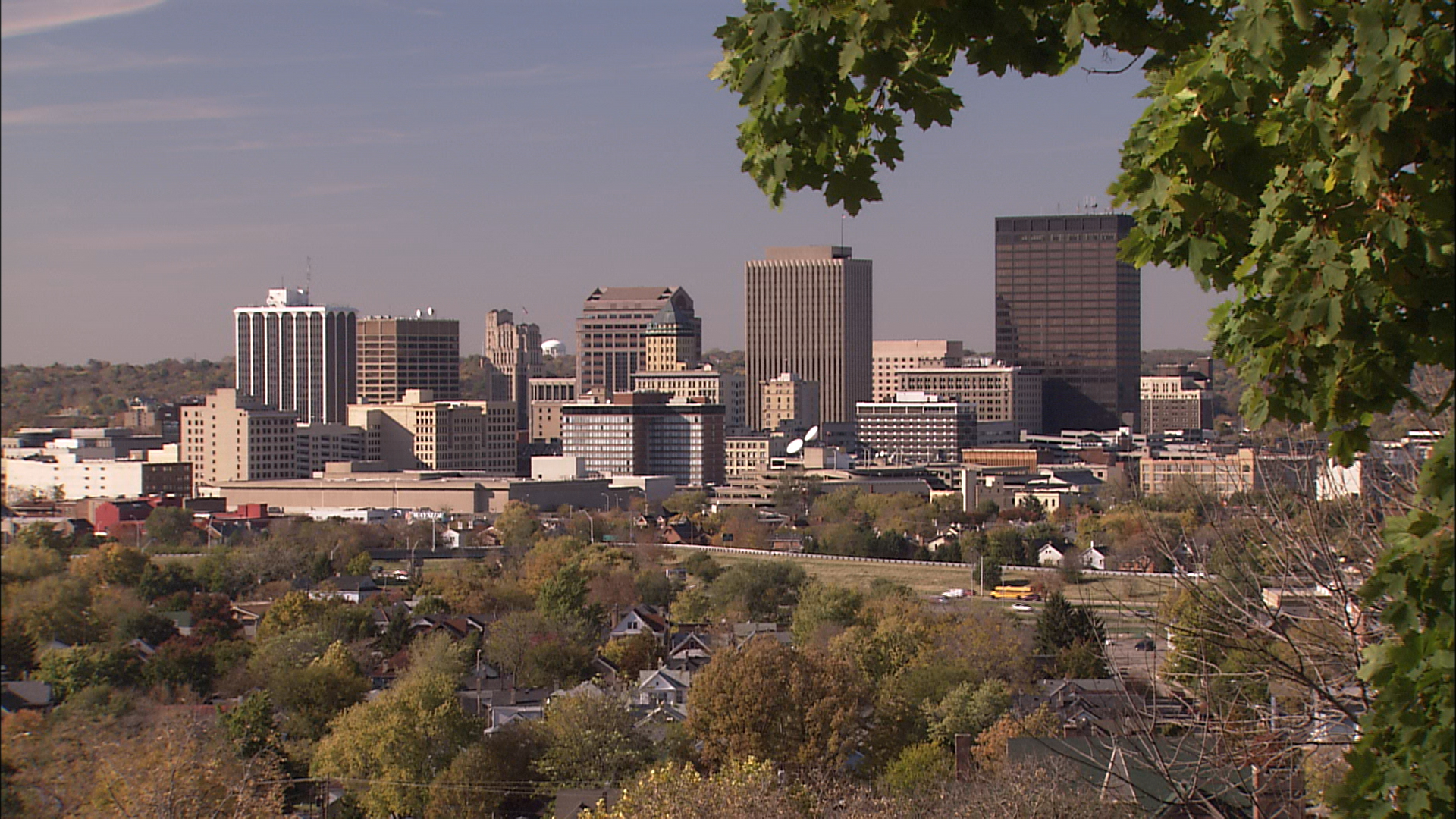 The photo from this website says that all their photos are in the public domain. I am allowed to use this photo for wikipedia and any other site. Anyone has the rights to this photo and is allowed to due as the please according to the website and their webmasters and operators. This photo also depicts a better version of Downtown Dayton the the Past Version done. I think that this photo should be used to replace the other one. Since the photo is in public domain then I have the rights too this photo to. To find this photo go to this website